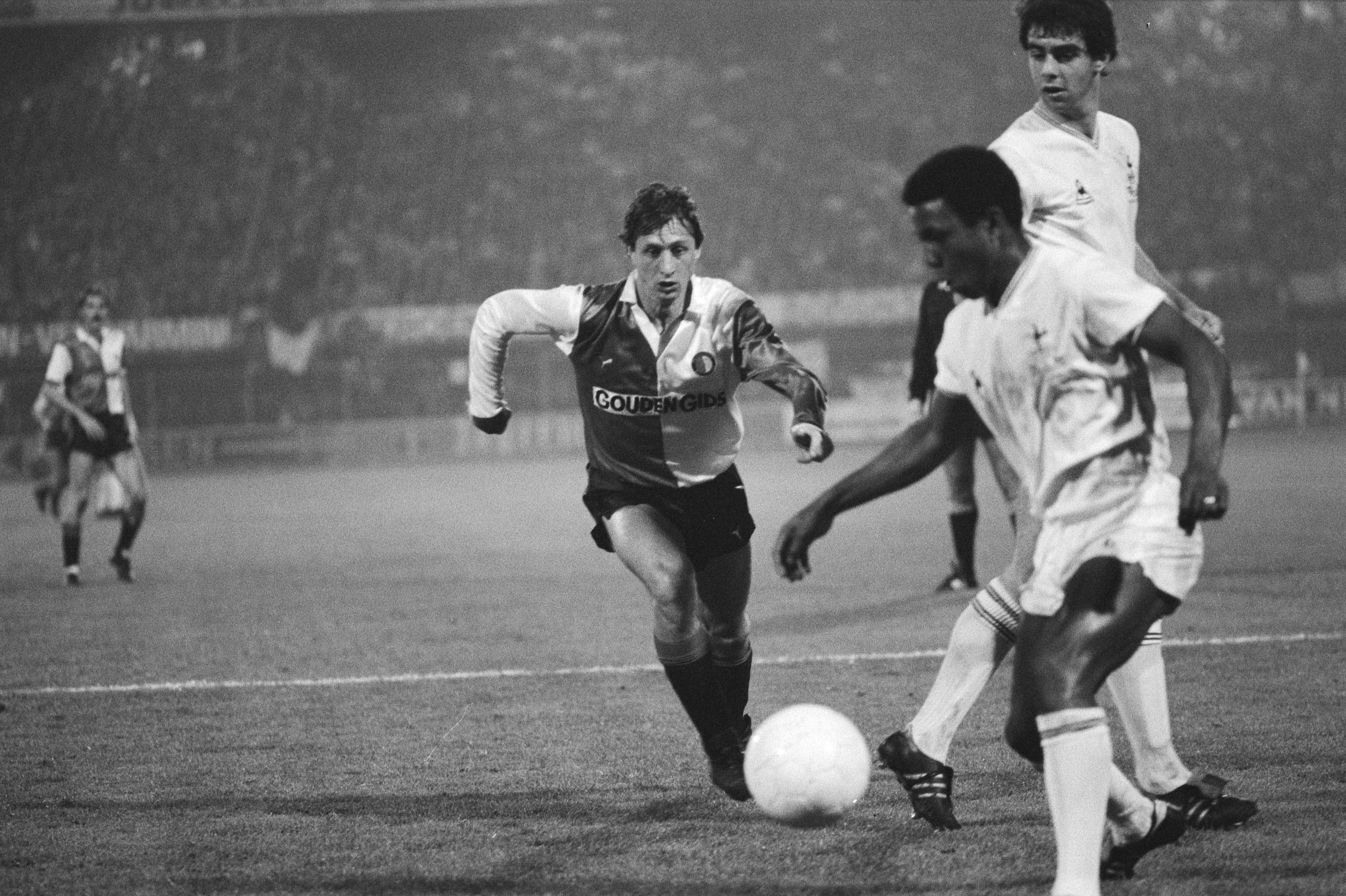 Feyenoord vs Tottenham Hotspur 0-2, 1983–84 UEFA Cup. Johan Cruyff, Danny Thomas and Gary Stevens